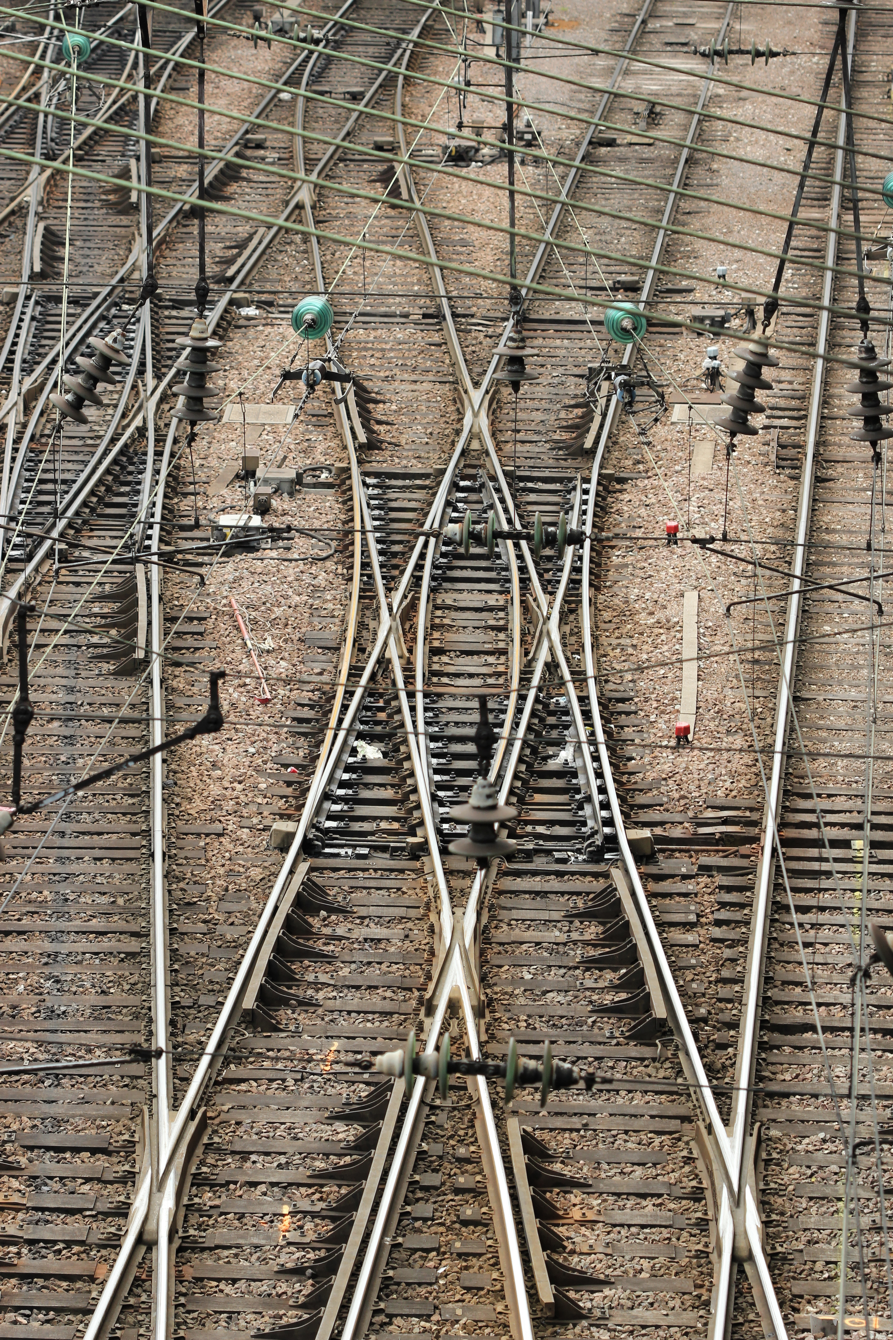 Double point, rail tracks of Gare de Paris-Est.